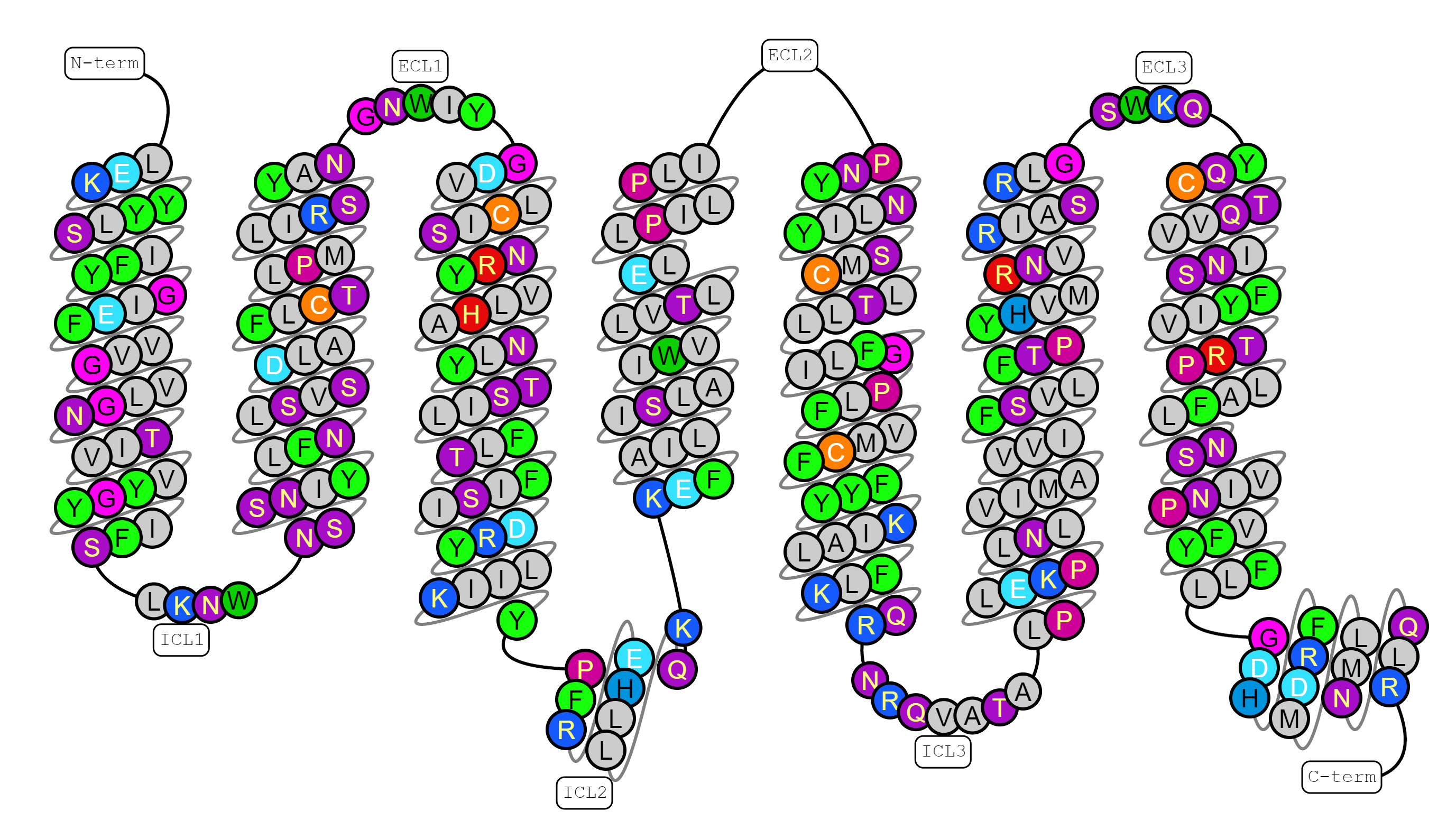 Snake diagram of succinate receptor